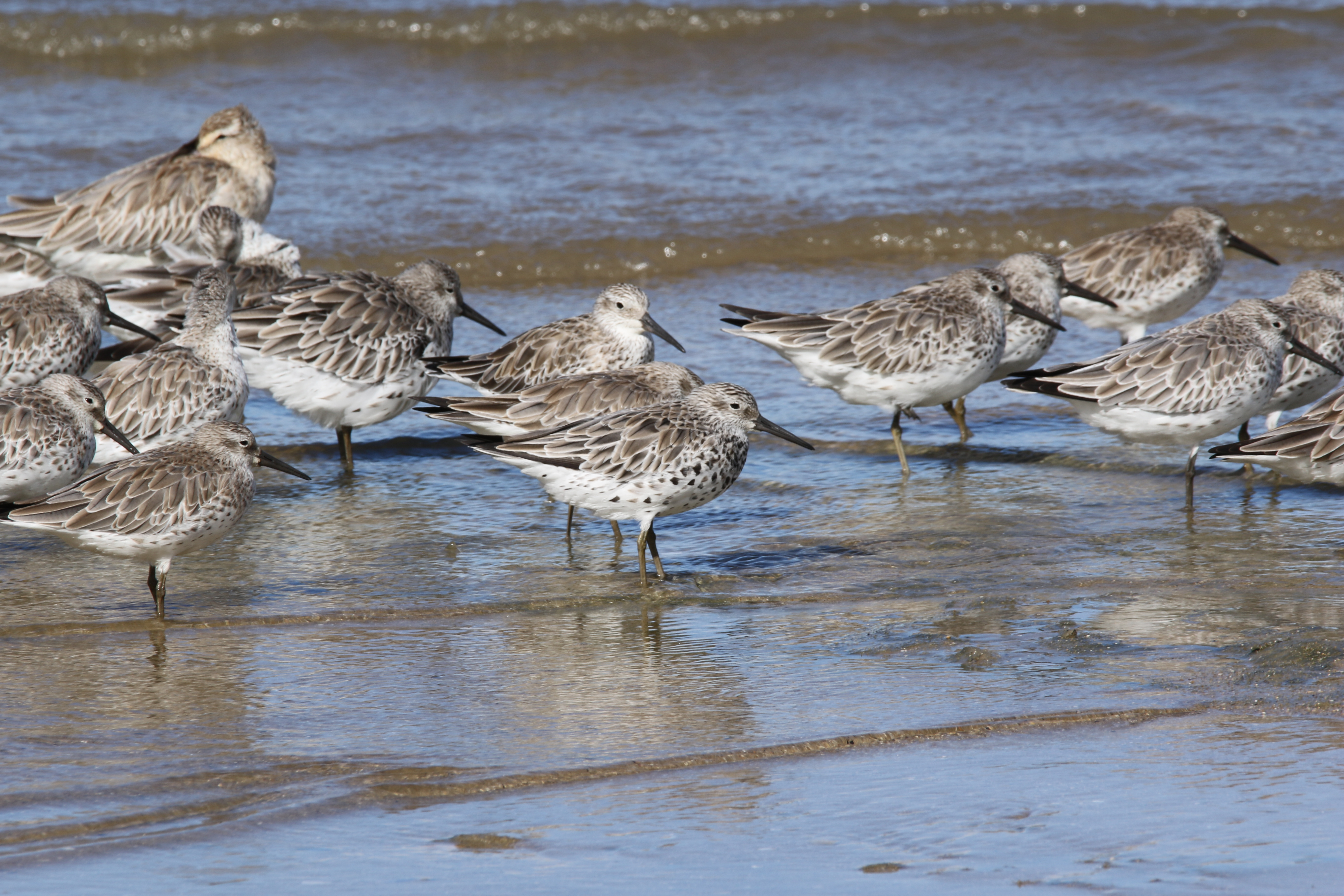 Calidris tenuirostris Horsfield, 1821, Great Knot, and Limosa lapponica (Linnaeus, 1758), Bar-tailed Godwit, Cairns Esplanade, Cairns, Queensland, 18 January 2016